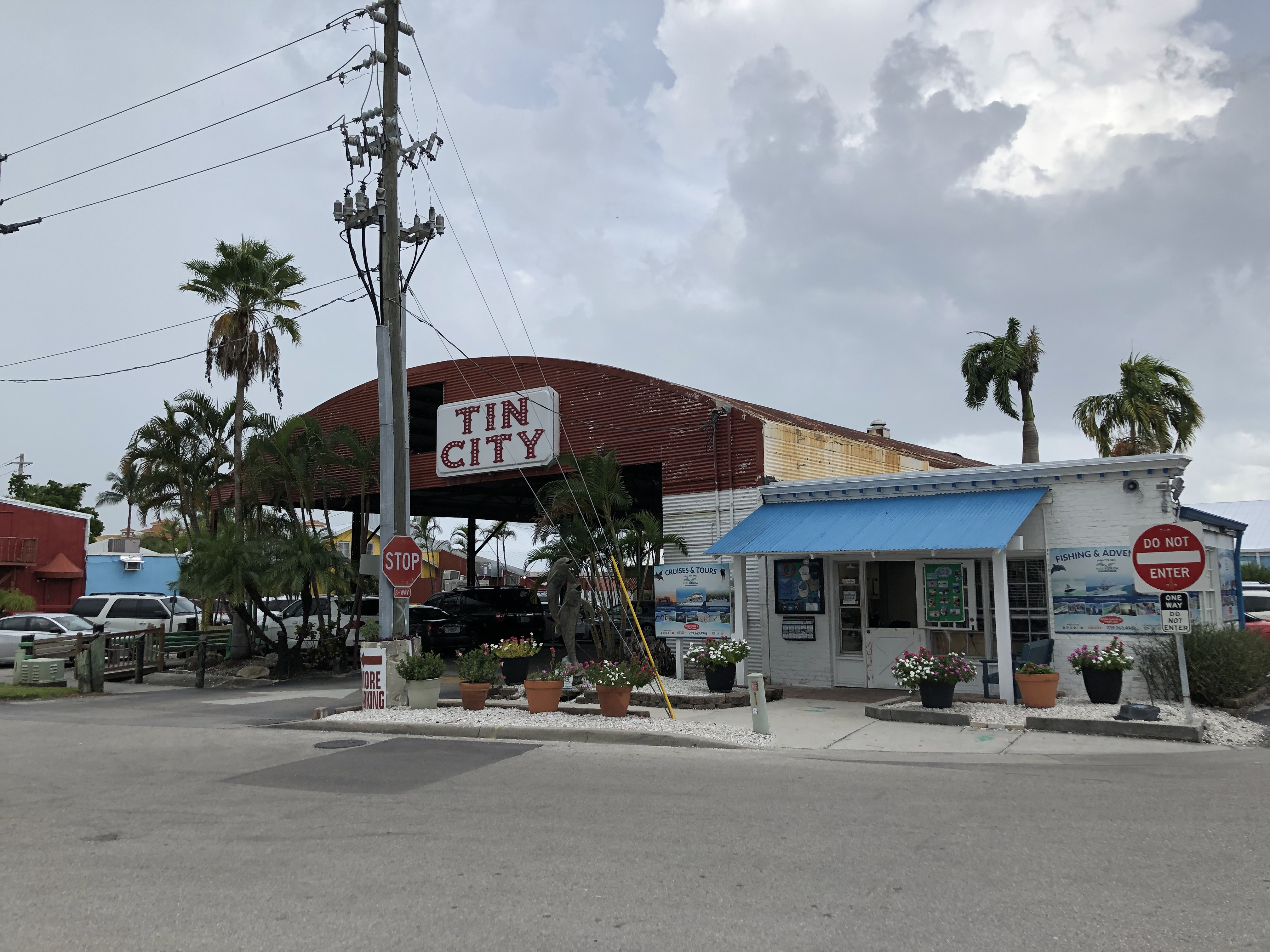 Our trip to Key West, the Everglades and Marco Island